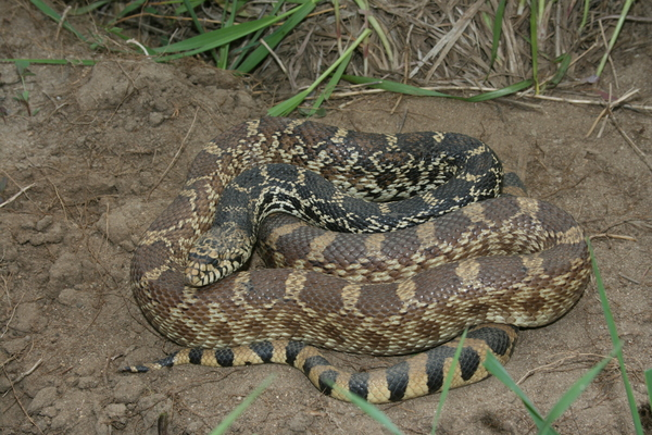 Bullsnake, Pituophis catenifer sayi, from Linn County, Iowa.